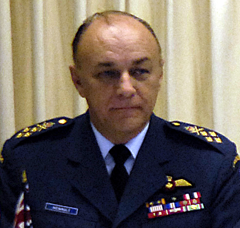 General Raymond Henault, Canadian Forces Air Command, Chairman of the NATO Military Committee